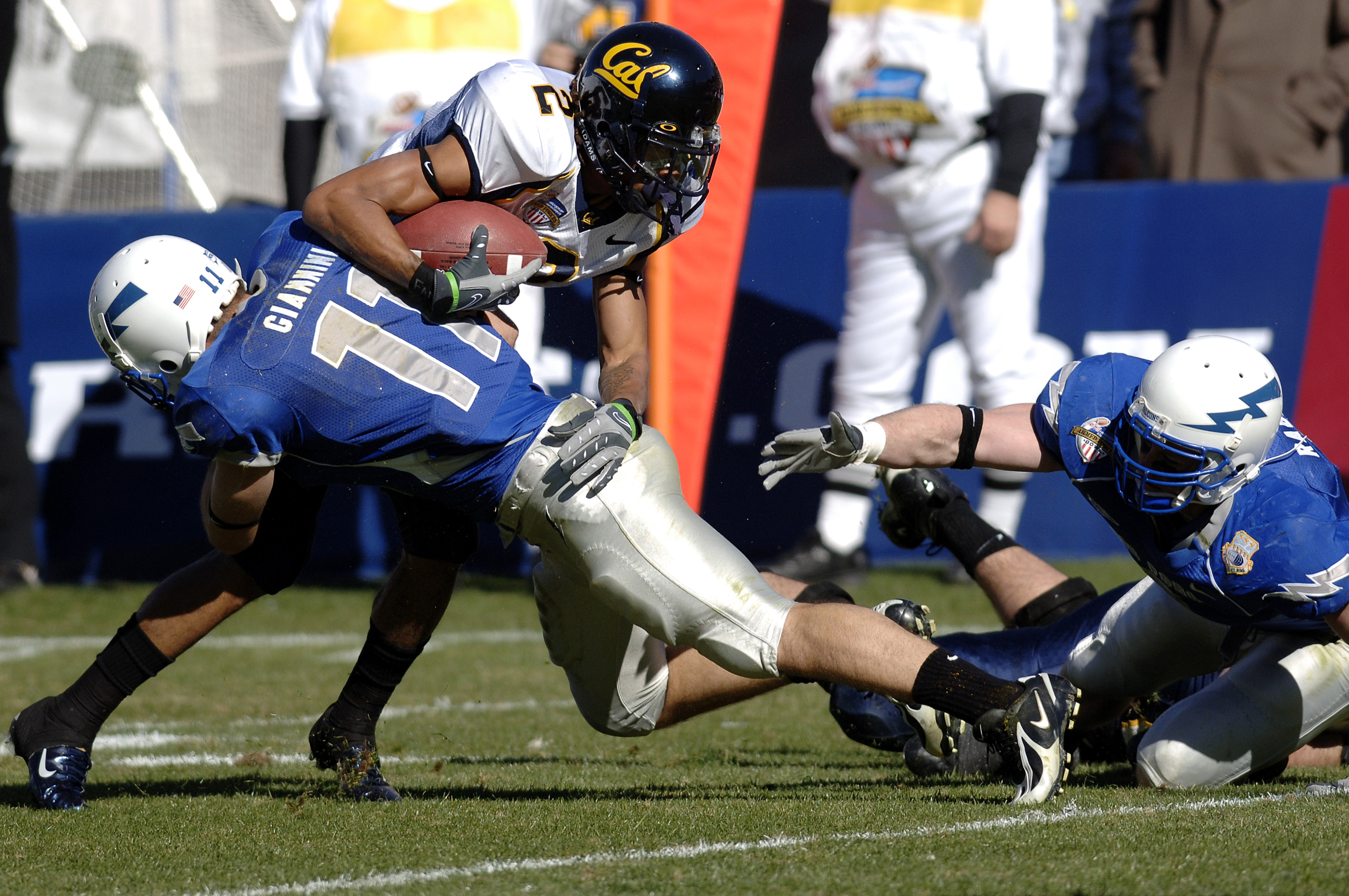 U.S. Air Force Academy senior free safety Bobby Giannini wraps up California Golden Bears wide receiver Robert Jordan during the Bell Helicopter Armed Forces Bowl at Amon G. Carter Stadium in Fort Worth, Texas. ID: 071231-F-0558K-015